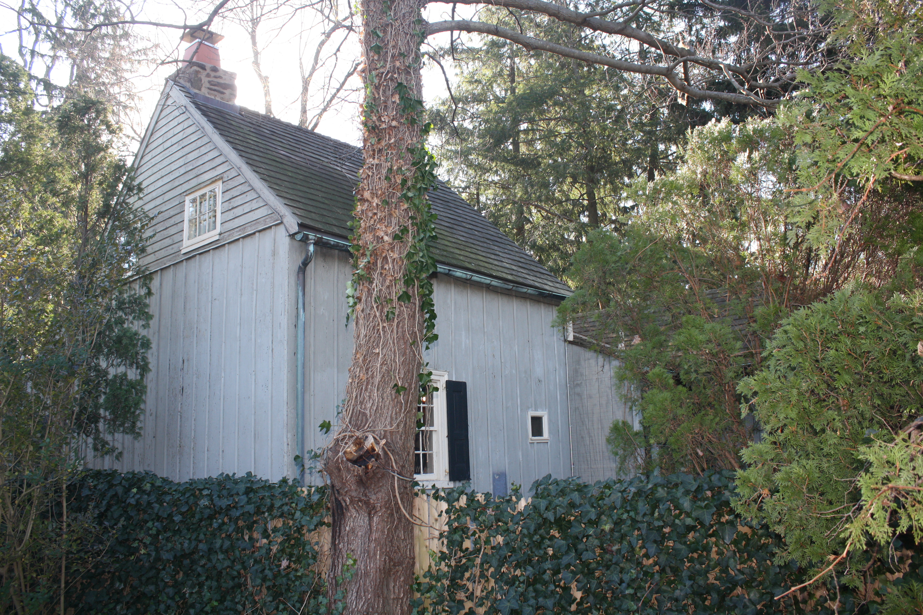 Jacob Kastner Loghouse is a historic home located at 416 Norristown Rd., Spring House in Lower Gwynedd Township, Montgomery County, Pennsylvania. Object location40° 22′ 13″ N, 74° 57′ 28″ W